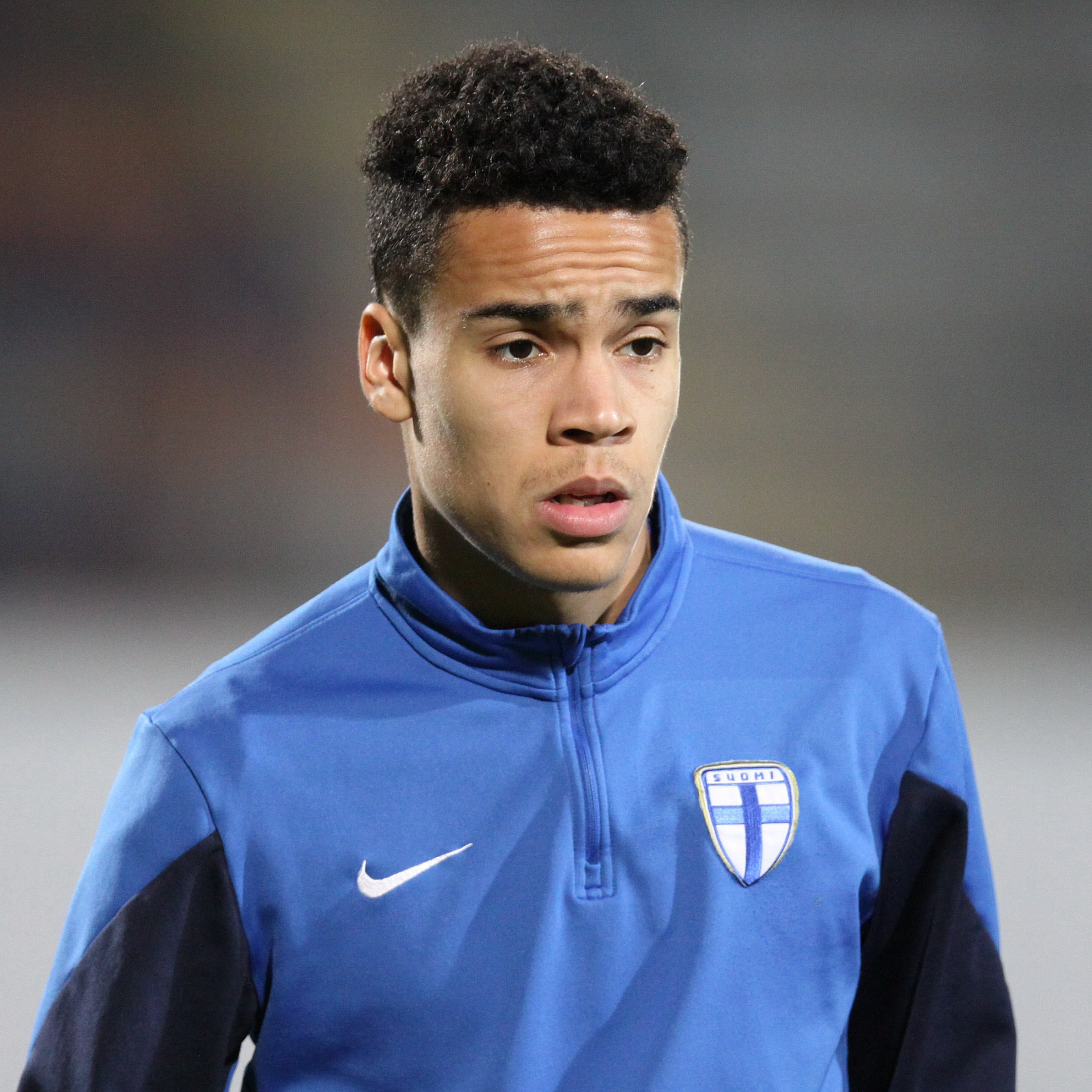 2017 UEFA European Under-21 Championship qualification – Austria U-21 (red shirts) vs. :en:Finland national under-21 football team |Finnland U-21 (blue shirts) 2-0 (0-0) – 2015-11-13 in Vienna, Austria Arena – The photo shows Pyry Soiri.